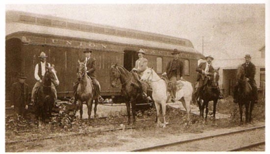 Posse organized to give chase to the Wild Bunch. From left to right: standing, unidentified; on horse, George Hiatt, Timothy Keliher, Joe Lefors, H. Davis, S. Funk, Thomas Jefferson Carr.